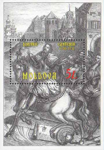 Stamp of Moldova